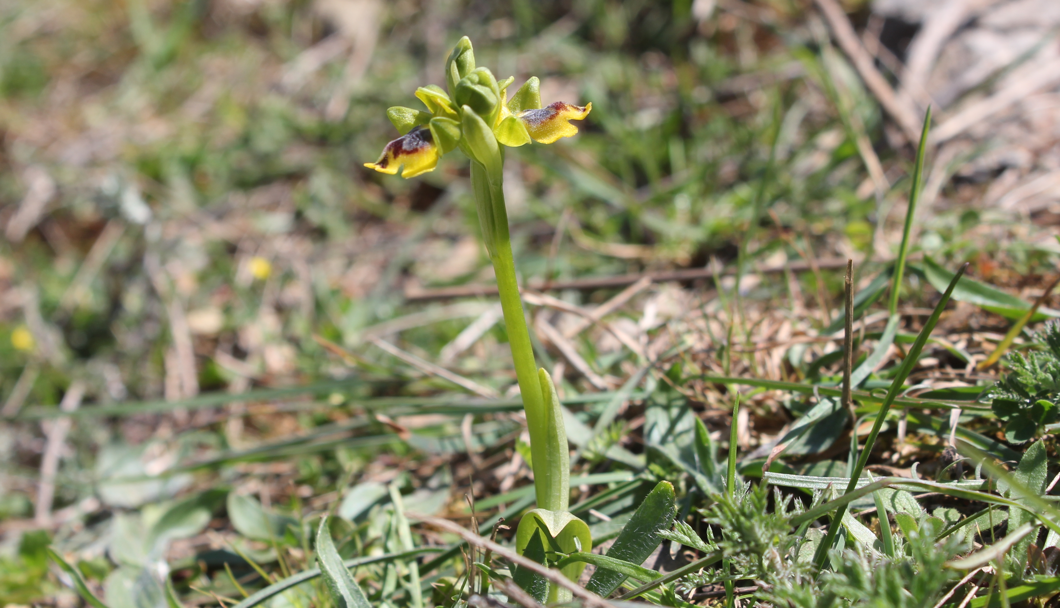 Ophrys lutea subsp. galilaea scape